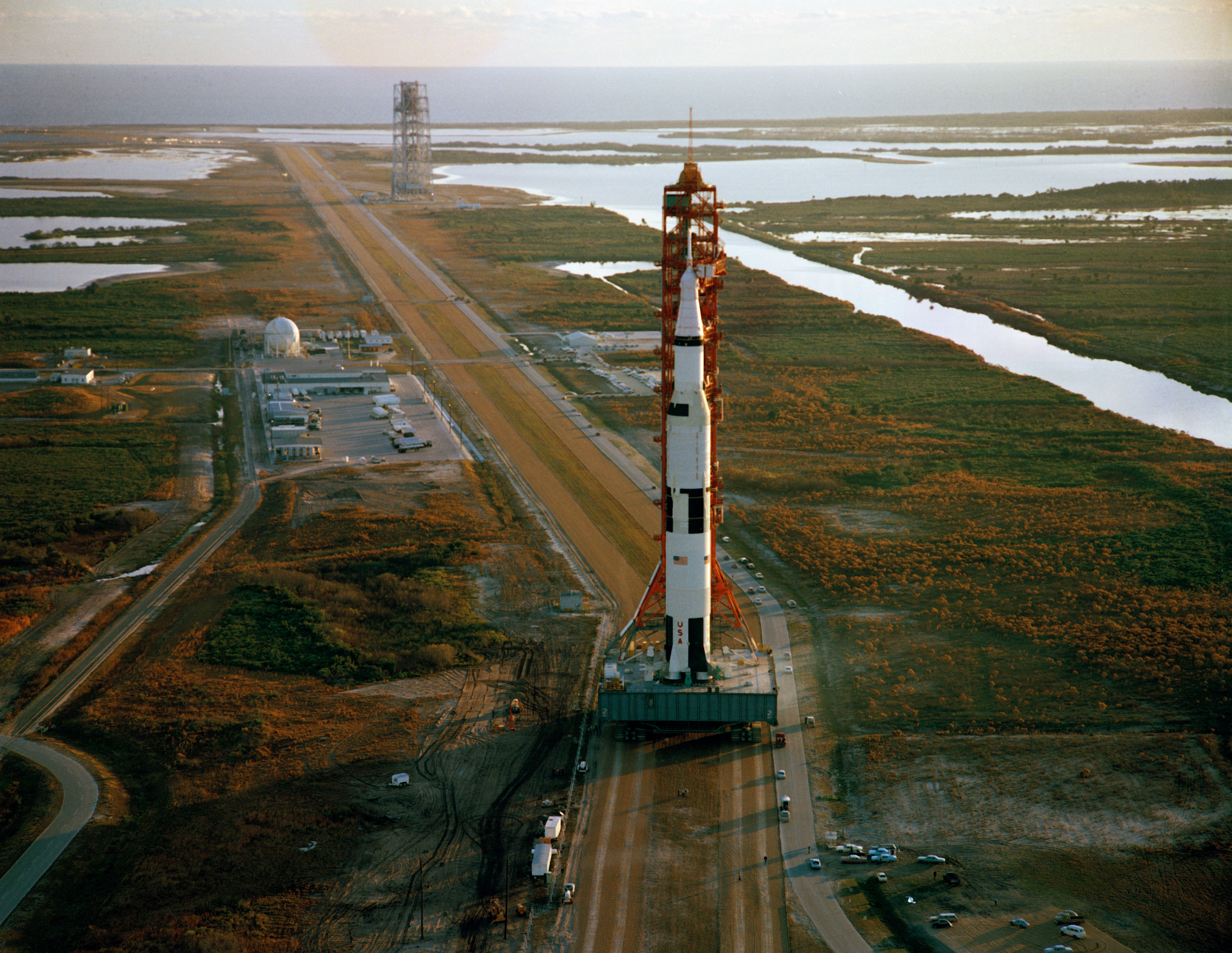 Aerial view of the Apollo 9 (Spacecraft 104/Lunar Module 3/Saturn 504) space vehicle on the way from the Vehicle Assembly Building to Pad A, Launch Complex 39, Kennedy Space Center. The Saturn V stack and its mobile launch tower are atop a huge crawler-transporter. (view looking toward Pad A)